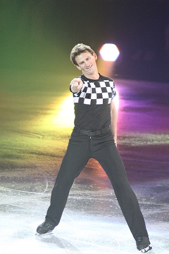 Stars on Ice in Manchester 2010.